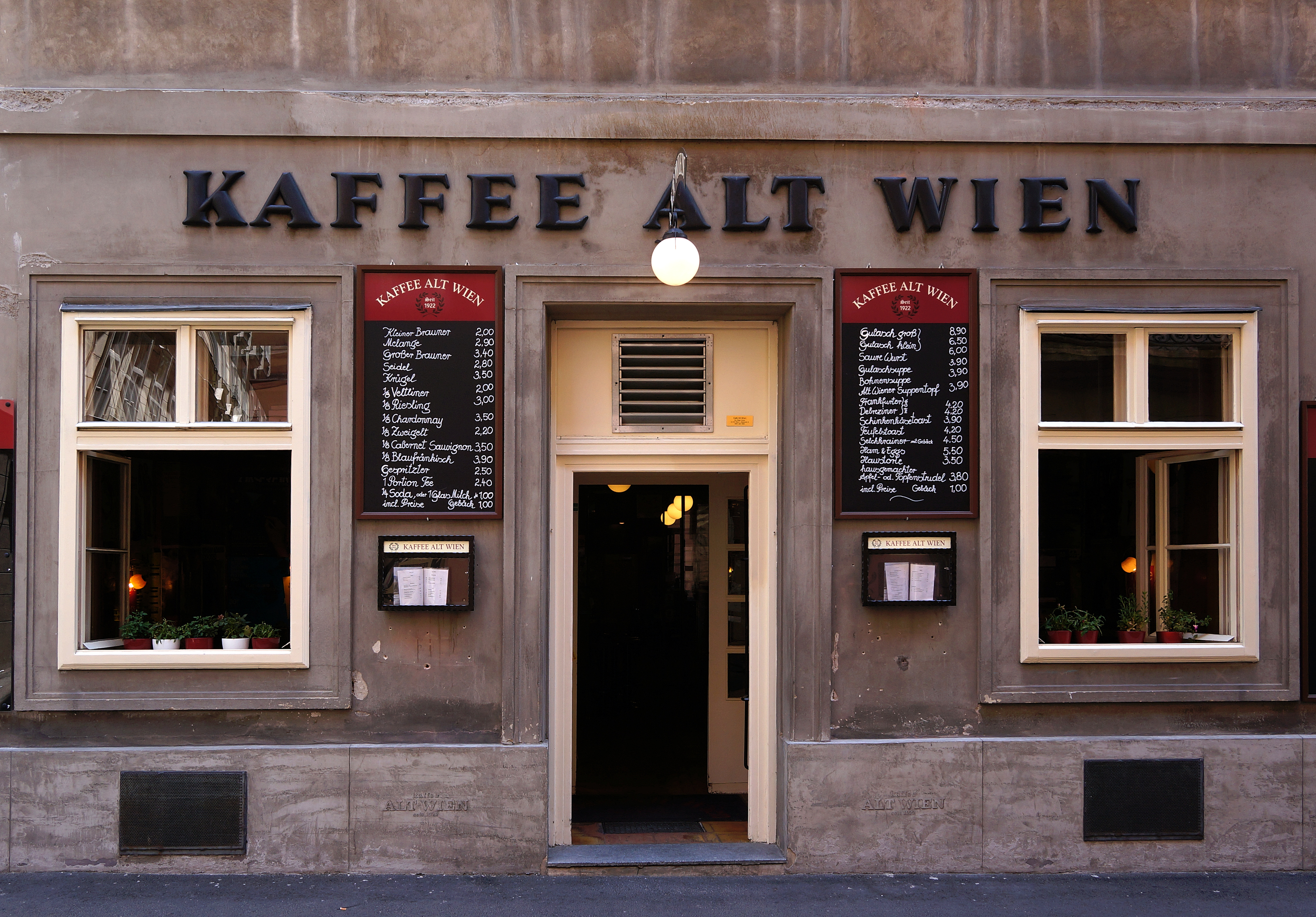 Coffee Shop, Vienna (Austria).